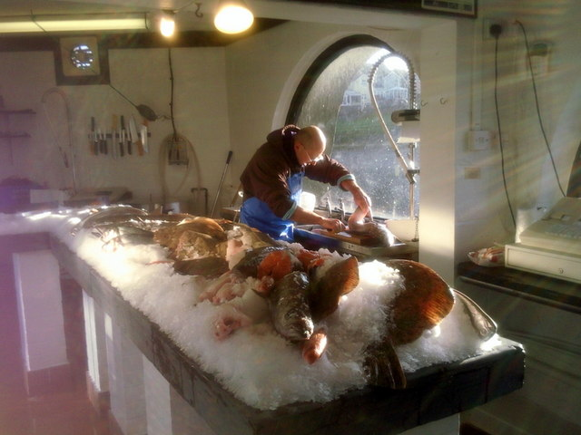 Fish on the Quay, Aberaeron For the past ten years fishmonger Will Willis has been running his operation from a shed on the quayside in Aberaeron. All fish is top-quality and sustainable as far as possible, sourced directly from day fishermen in Wales, Cornwall and Scotland. Here he is filleting an extremely fresh pollack (landed in Looe that morning) for the photographer and family.